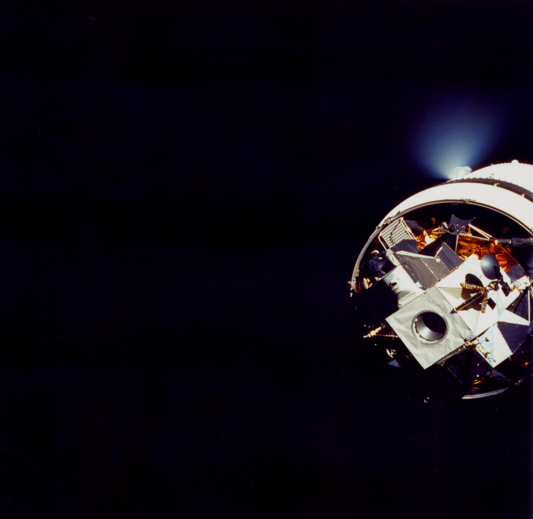 The S-IVB stage vents propellant during transposition and docking.